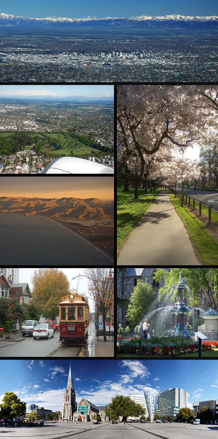 From top left, Christchurch city from the Port Hills, aerial view of Hagley Park, Cherry Blossom trees in Hagley Park, aerial view of New Brighton and the Port Hills, a Christchurch tram, the Peacock Fountain in the Christchurch Botanic Gardens, and the ChristChurch Cathedral in Christchurch.